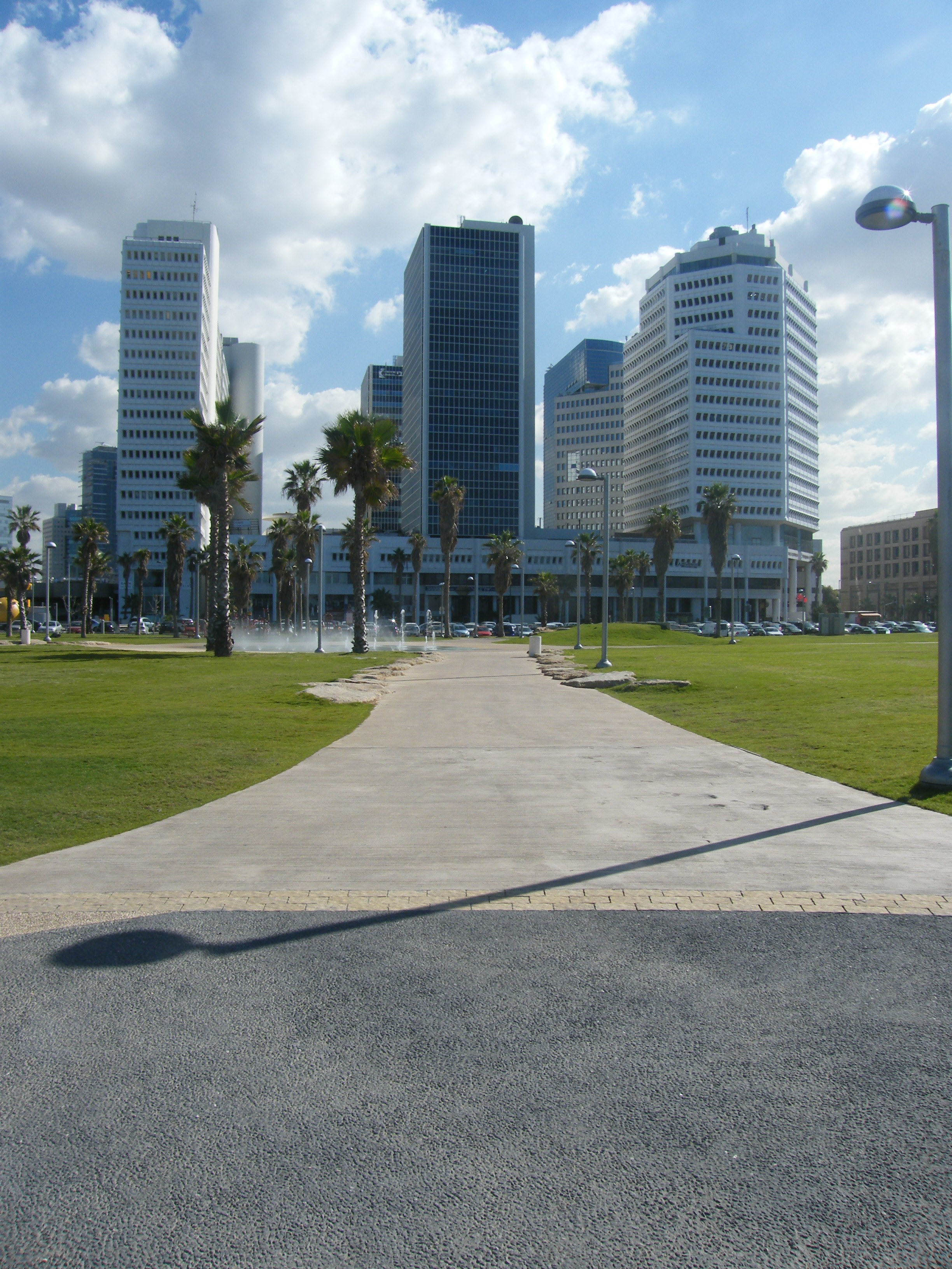 Environment of Israel